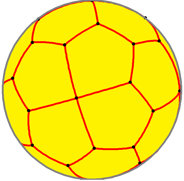 Spherical pentagonal icositetrahedron